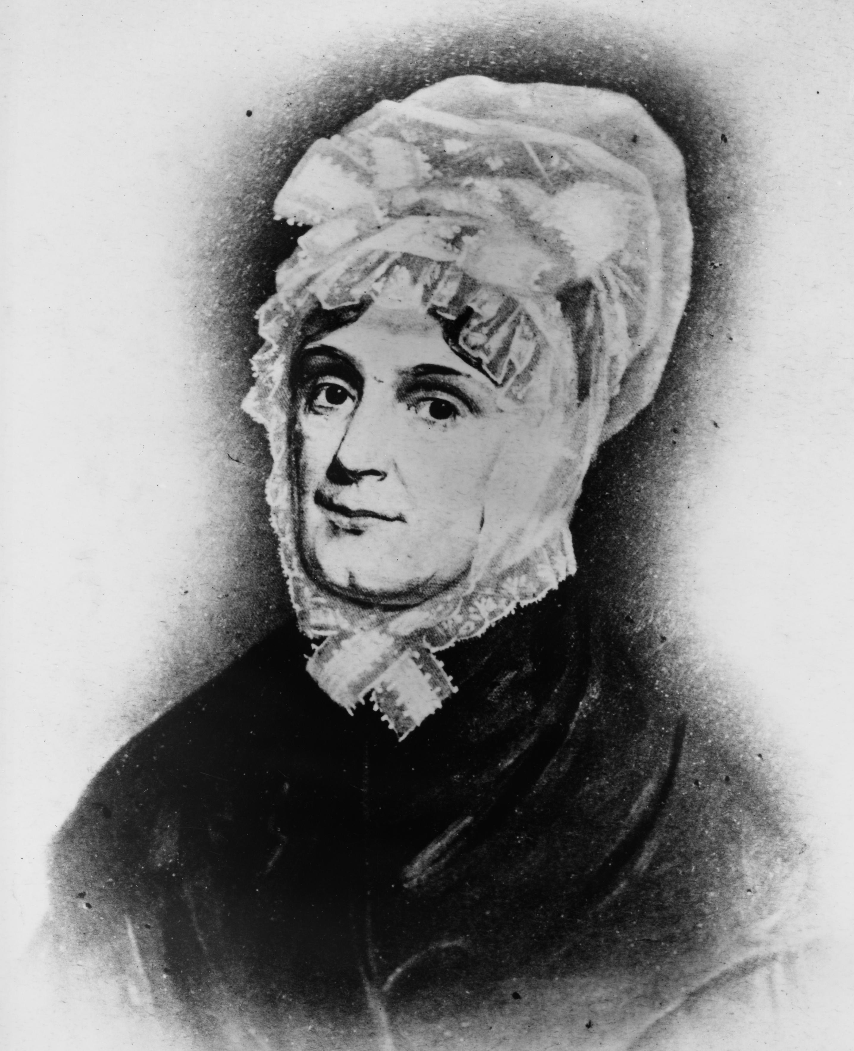 Anna Harrison, wife of William Henry Harrison.